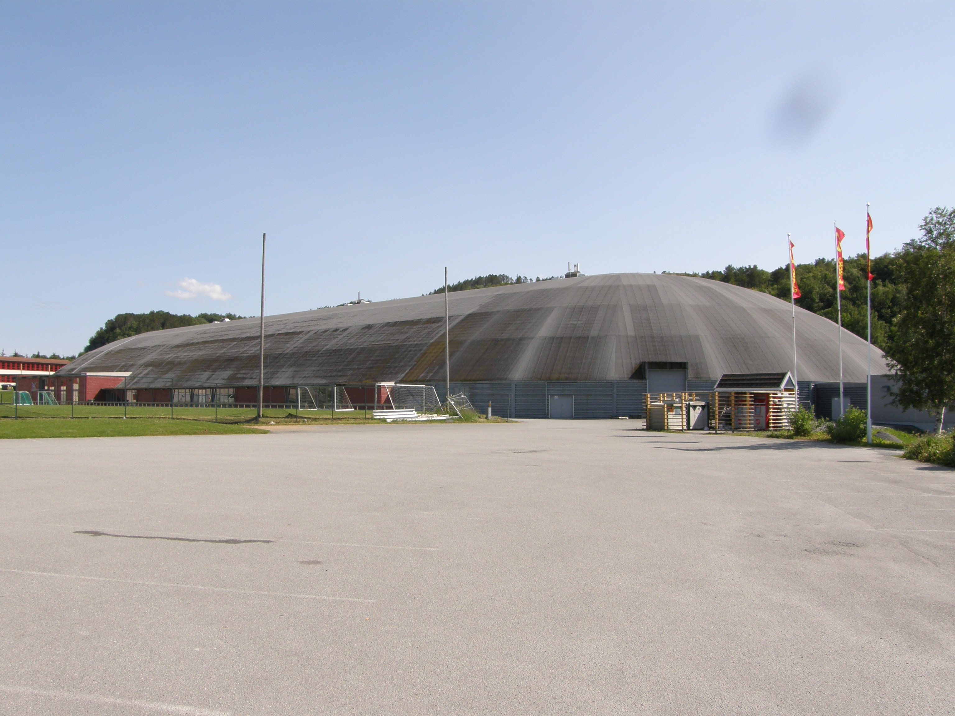 Fosenhallen, a speed skating venue in Botngård, Bjugn, Norway